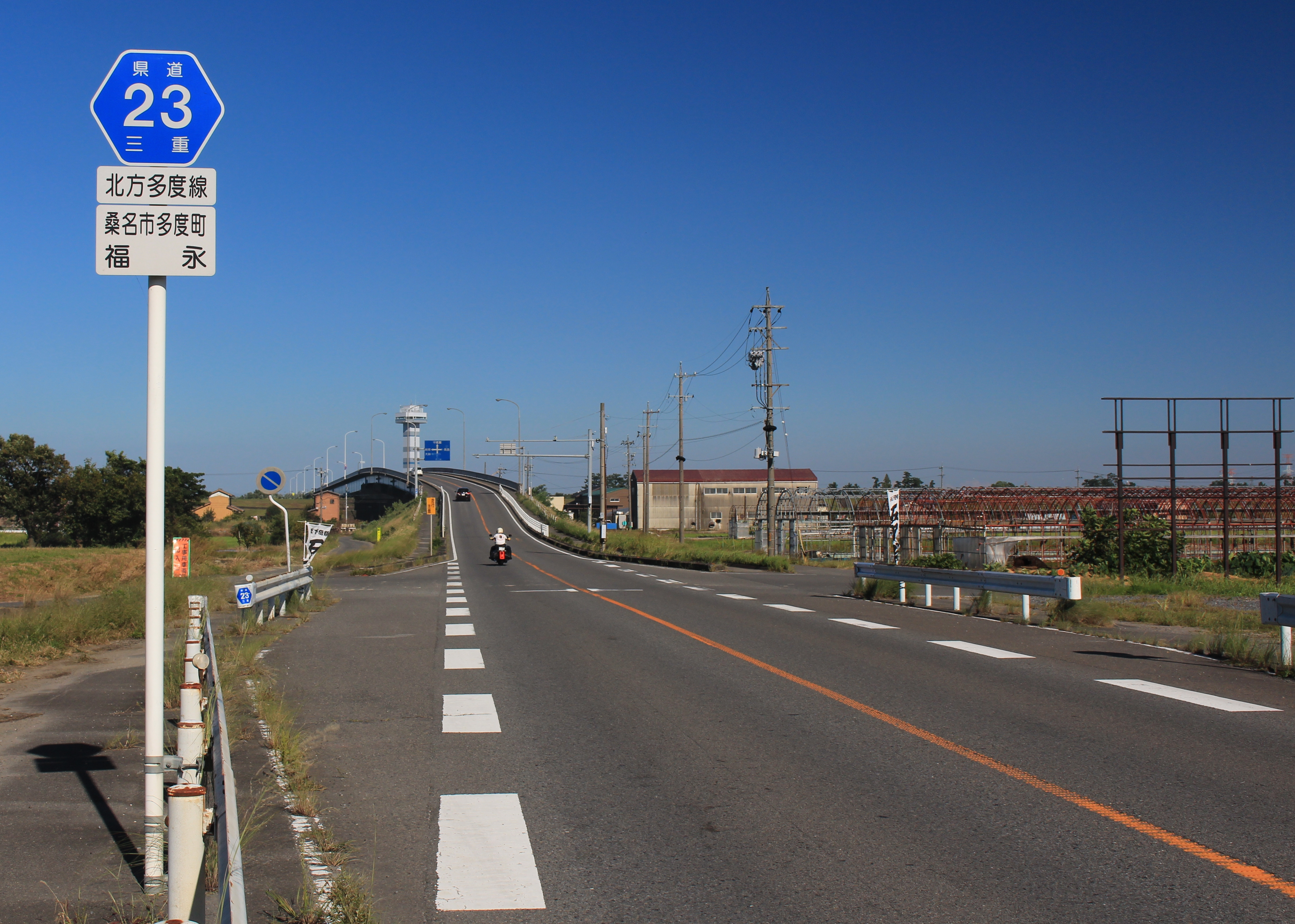 Mie Prefectural Road Route 23 in Fukunaga, Tado, Kuwana, Mie prefcture, Japan.